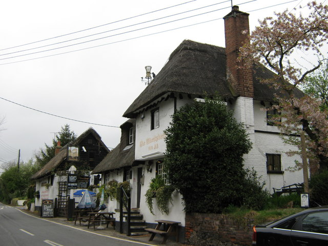 The Wheatsheaf Public House, Westwood On Highcross Road. Note; Rat and wheatsheef on weathervane on roof.